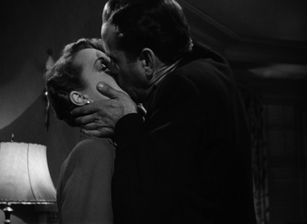 Frame from the 1941 public domain trailer for the Warner Bros. film The Maltese Falcon showing Humphrey Bogart as Spade kissing Mary Astor as Brigid.